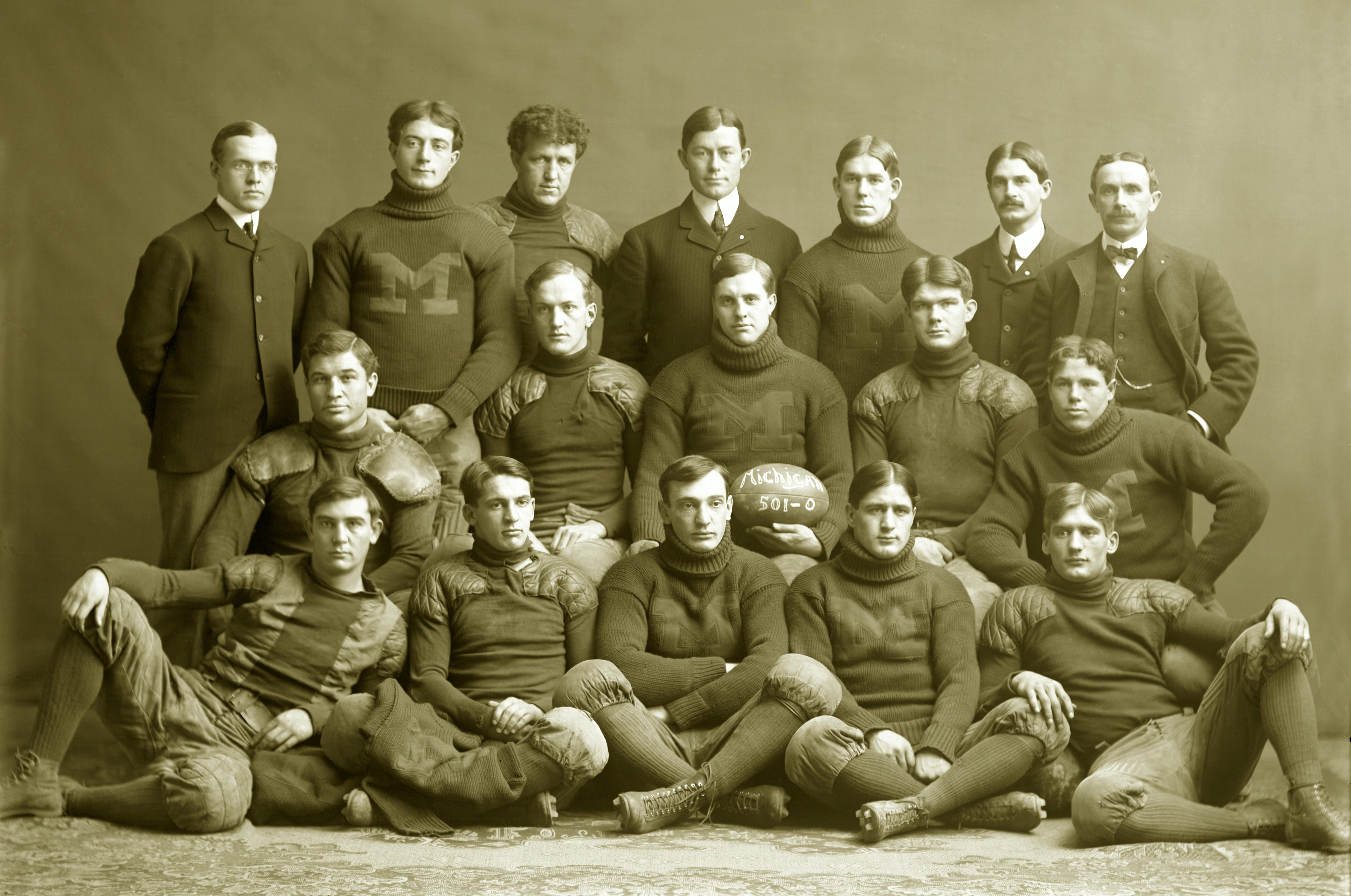 Photograph of 1901 Michigan Wolverines football team Front (left to right): Everett Sweeley, Boss Weeks, Curtis Redden, Arthur Redner, Albert E. Herrnstein Middle (left to right): Ebin Wilson, Neil Snow, Hugh White, Bruce Shorts, Willie Heston Back (left to right): H.K. Crafts, Dan McGugin, George Gregory, Fielding H. Yost, Herb Graver, Charles A. Baird, Keene Fitzpatrick